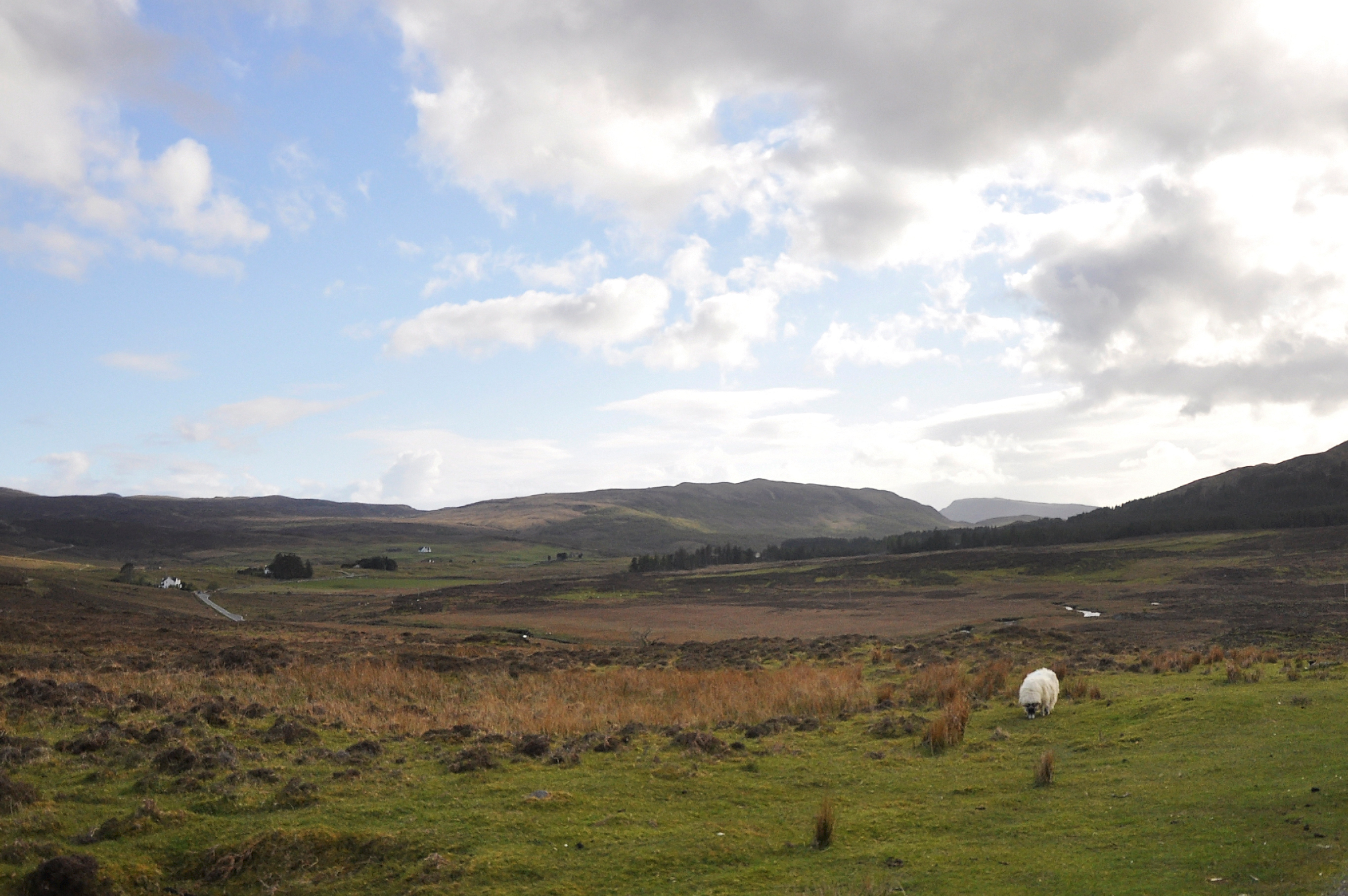 the valley of Swordale between Broadford and Elgol on Skye